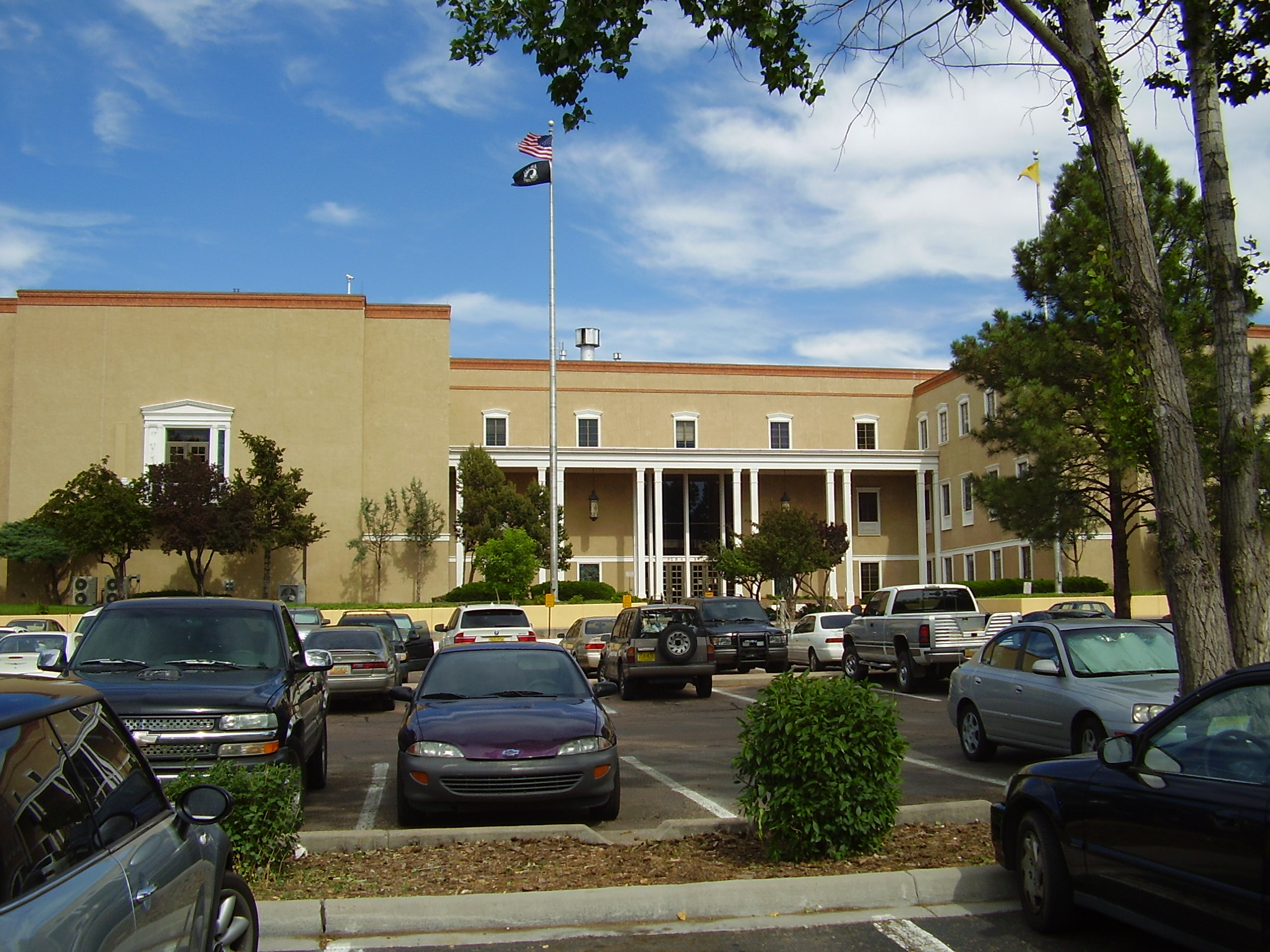 P.E.R.A. Building in Santa Fe, New Mexico - It houses the Children, Youth, and Family Department, Public Regulation Commission, and Public Employee Retirement Association